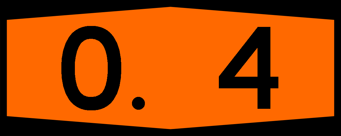 Otoyol 4